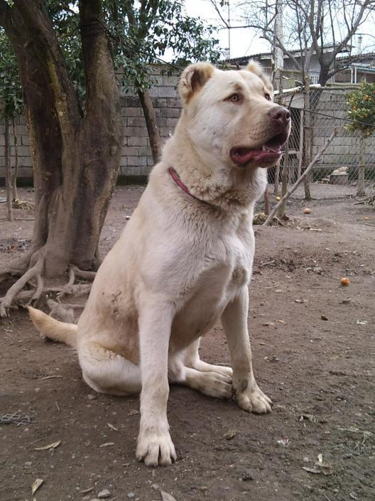 Afghan shepherd or standerd Persian Sagi Jangi